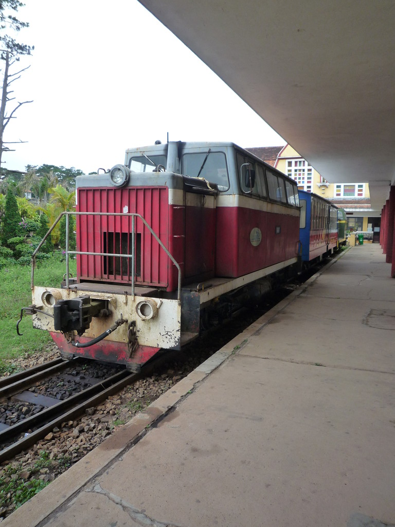 Train station of Dalat.